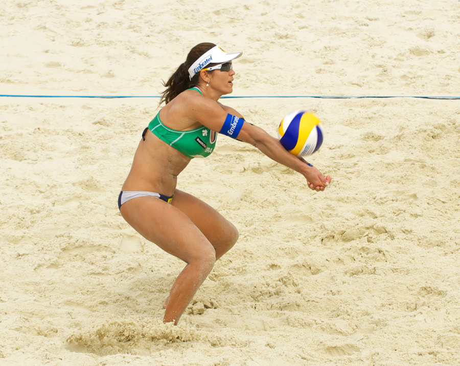 Grand Slam Moscow 2012